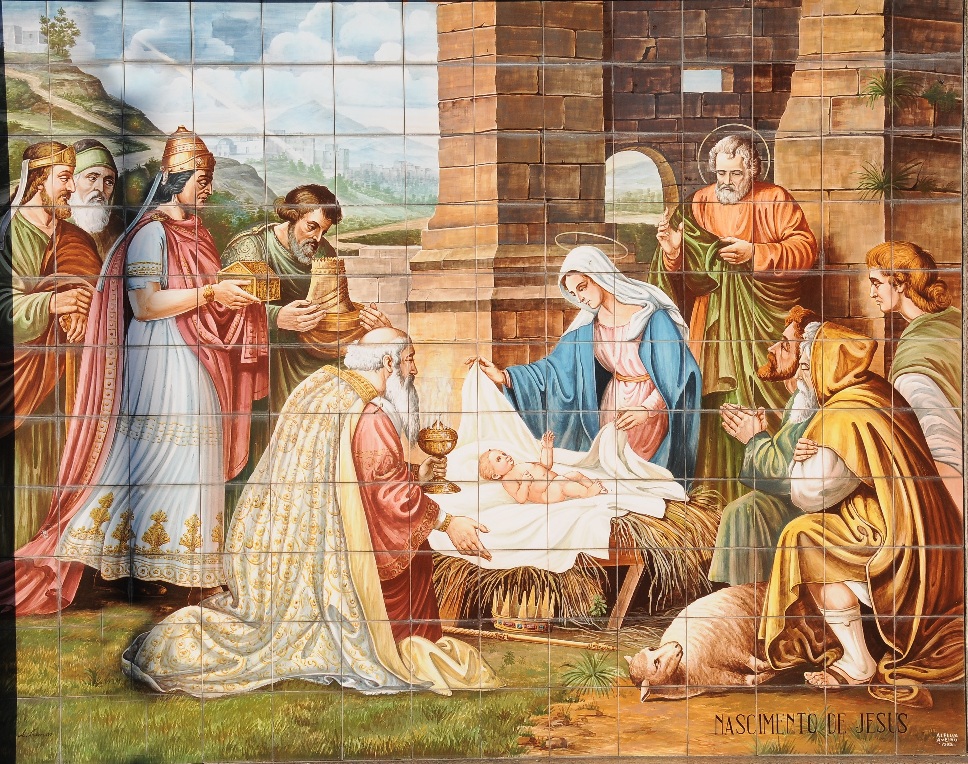 Azulejos in Gilmonde, Barcelos, Portugal.